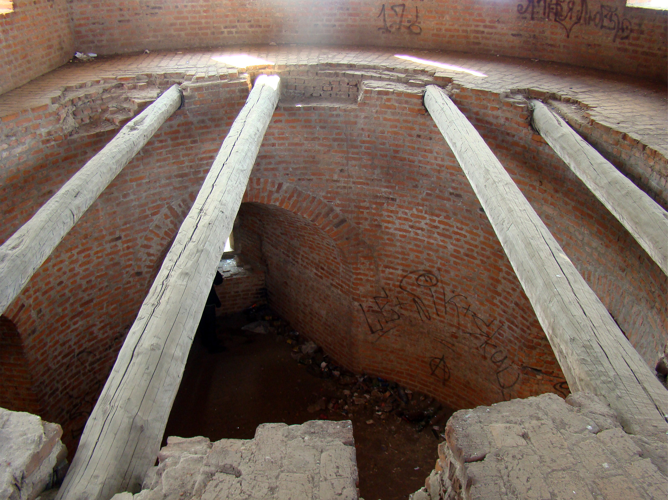 Nizhny Novgorod Kremlin. Inside Borisoglebskaya tower